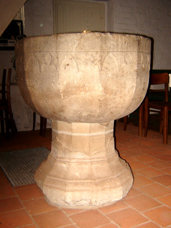 Mueden/Oertze, Lower Saxony (Germany), baptistery in the Church, circa 1250 date QS:P,+1250-00-00T00:00:00Z/9,P1480,Q5727902